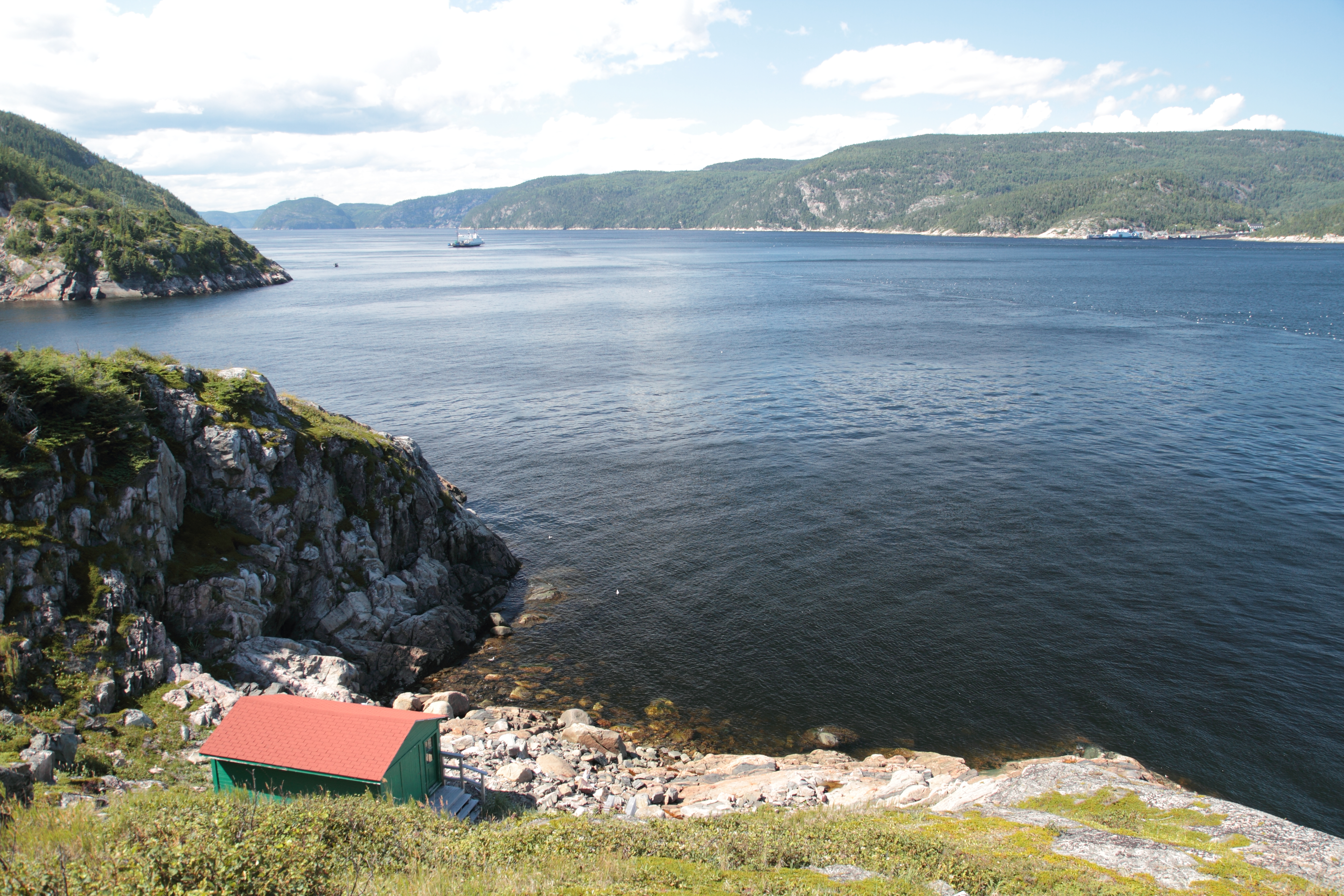 Saguenay River mouth from Pointe-Noire Interpretation and Observation Centre, Baie-Sainte-Catherine, Quebec, Canada